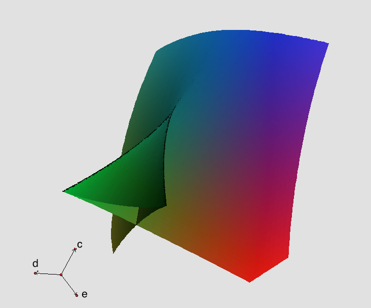 The Discriminant of the quartic polynomial x^4+a x^2+b x + c. The surface represents point (a,b,c) where the polynomial has a repeated root, the cuspidal edge correspond to polynomials with a triple root and the self intersection to the polynomials with two different repeated roots. This surface satisfies the equation -4 a^3 b^2 - 27 b^4 + 16 a^4 c -128 a^2 c^2 + 144 a b^2 c + 256 c^3 - 0. It was generated from the Singsurf program.